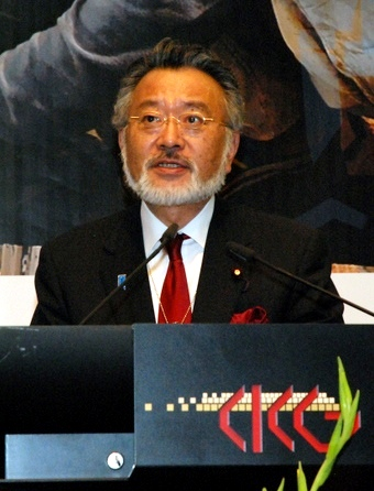 Shōzō Azuma at the opening plenary of the Global Platform for Disaster Risk Reduction by UNISDR in Geneva. Photo: IISD RS